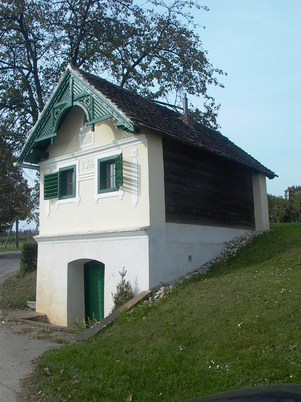 A Kellerstöckl (a kind of wine cellar) at the Csaterberg (Kohfidisch) in southern Burgenland